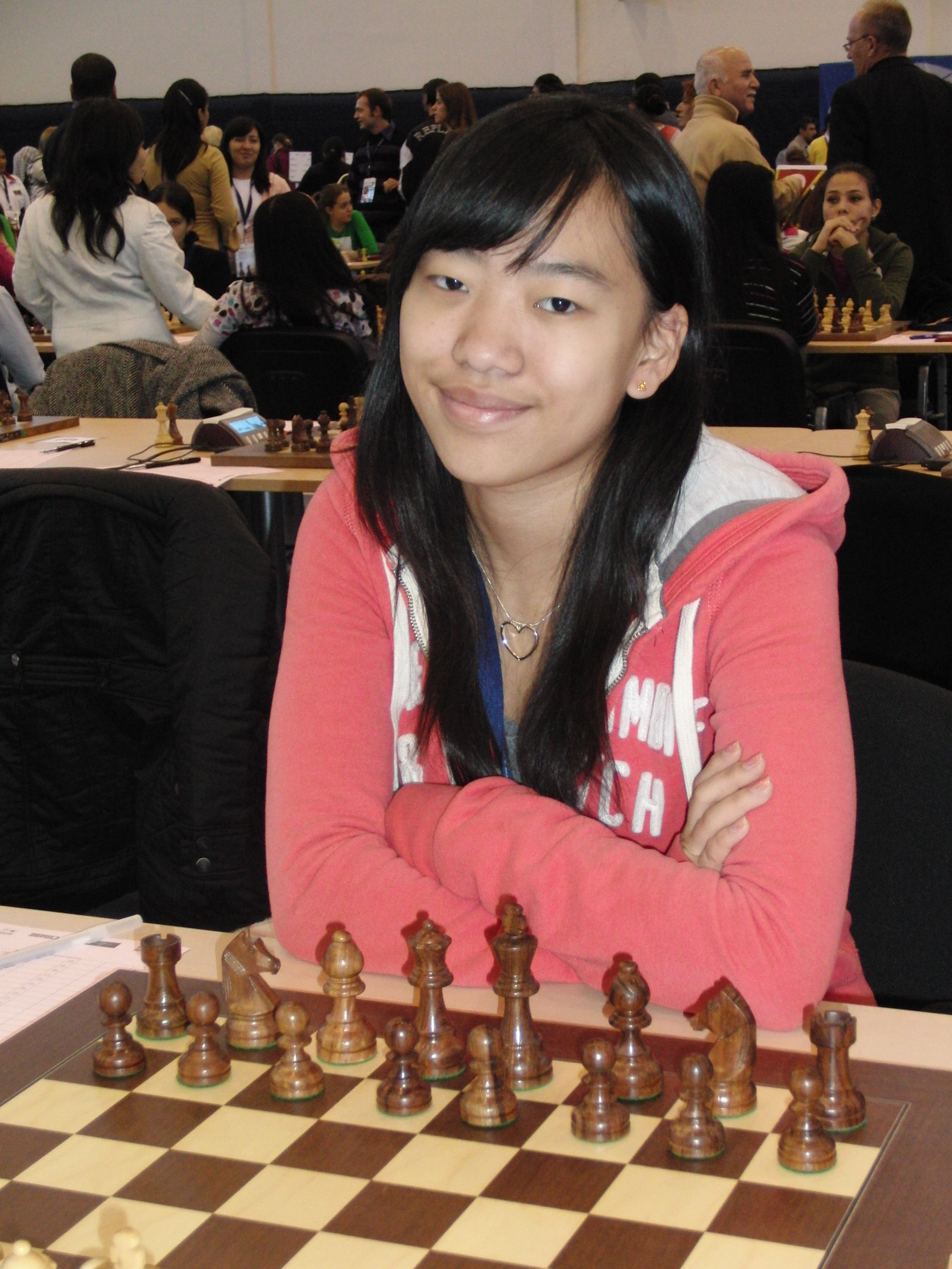 WIM Yuanling Yuan at the 39th World Chess Olympiad in Khanty-Mansiysk, Russia